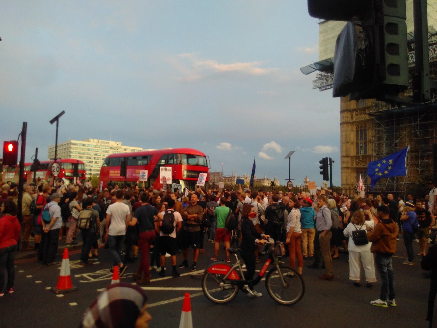 Blocking The Bridge